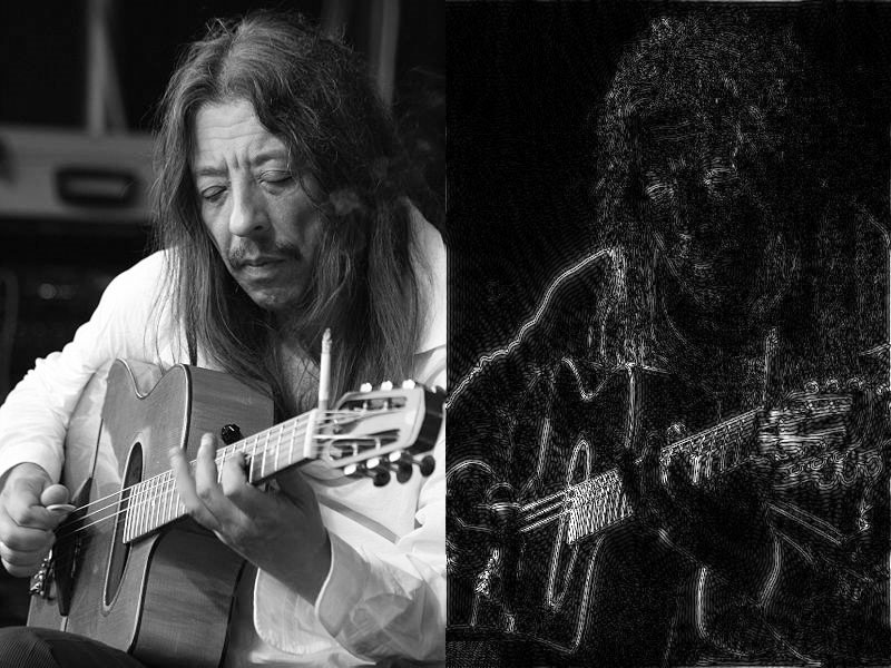 Highpass filter on a picture. The picture was transformed using FFT and the low frequencies were removed, then the picture was converted back to the proper space using IFFT.